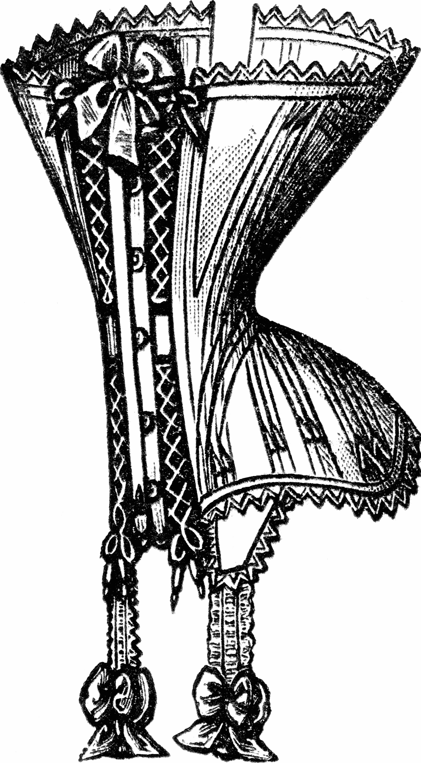 No. 755. lacing new patented CORSET lengthening-piece thins the size/the waist/the figur, is tightened and loosened at will/at discretion, without removing the blouse/the corsage, out of pink or black cambric 39." In fine drill unbleached or black. 33."